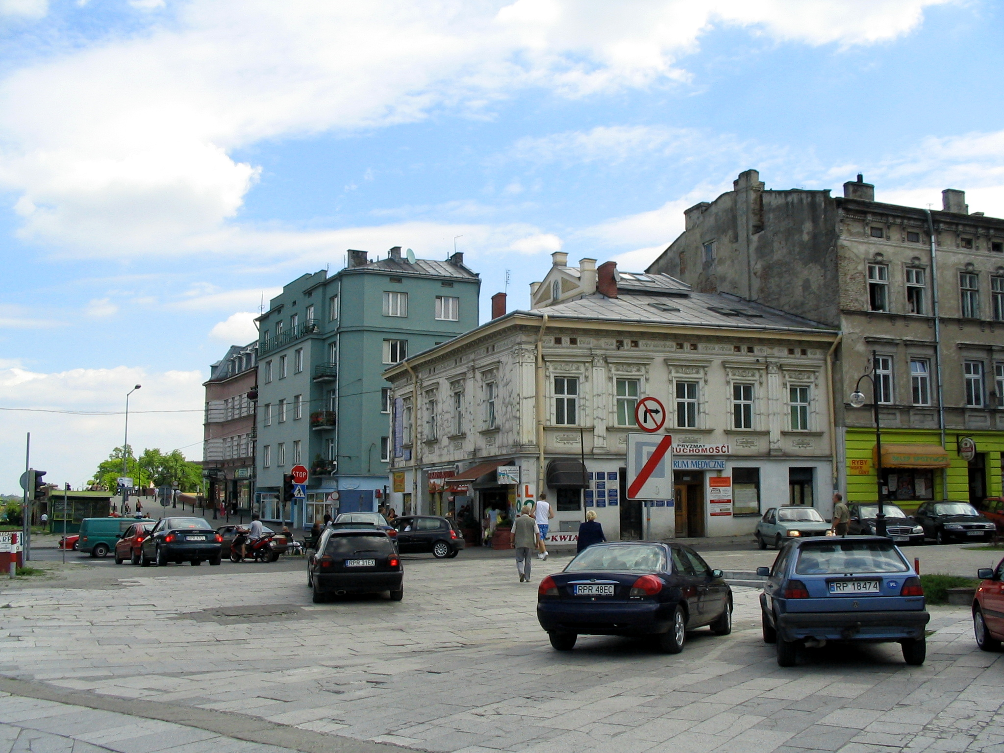 The place where Old Synagogue used to be standing - Przemyśl, Poland